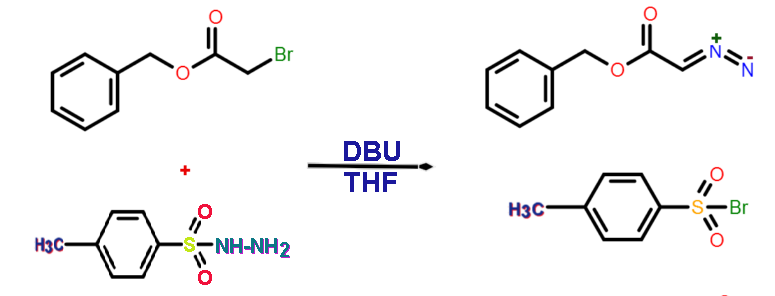 Benzyl diazo-acetate synthesis from Bromoacetyl bromide and tosyl hydrazide